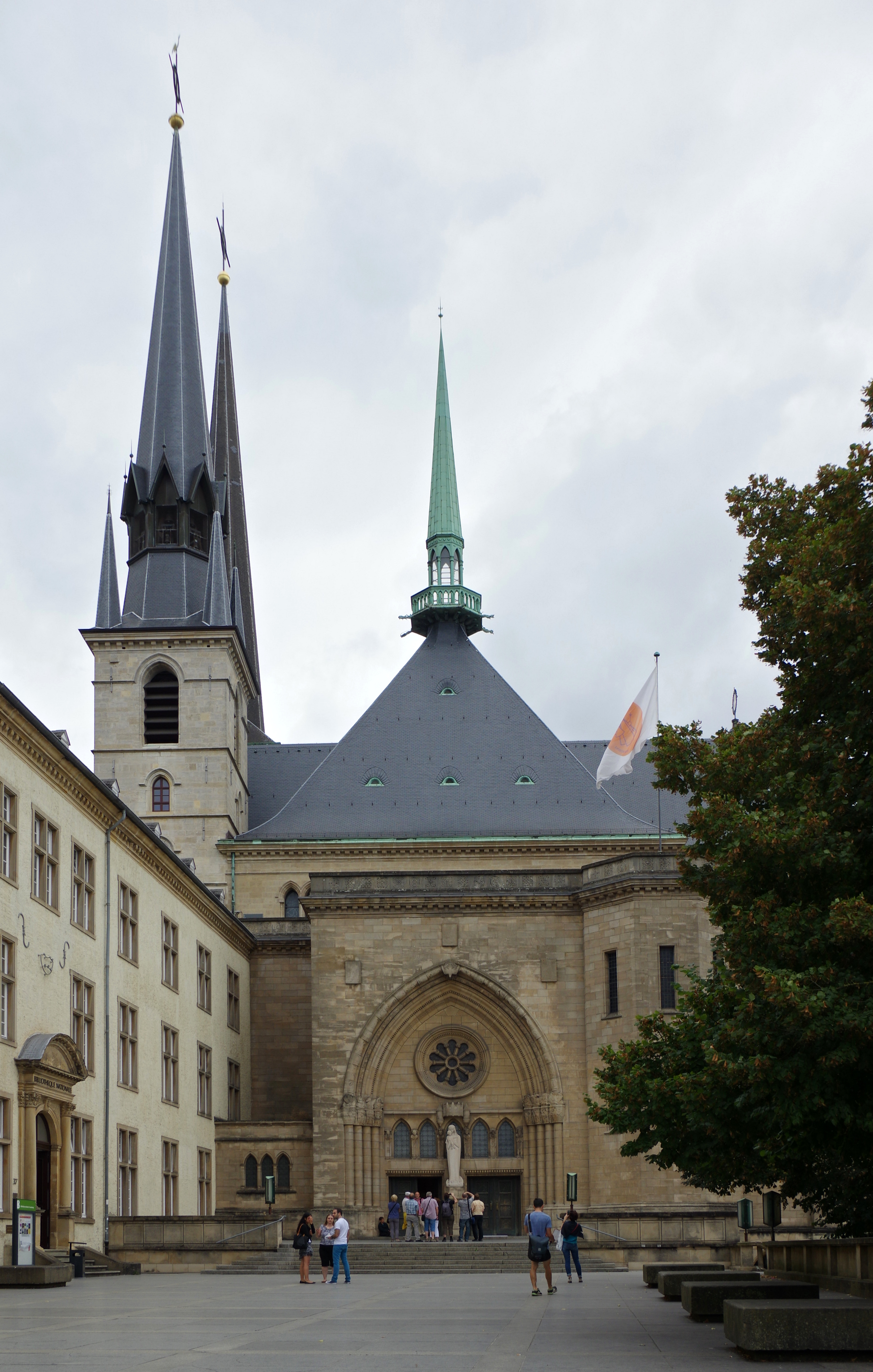 Luxembourg city, Notre-Dame cathedral, west entrance